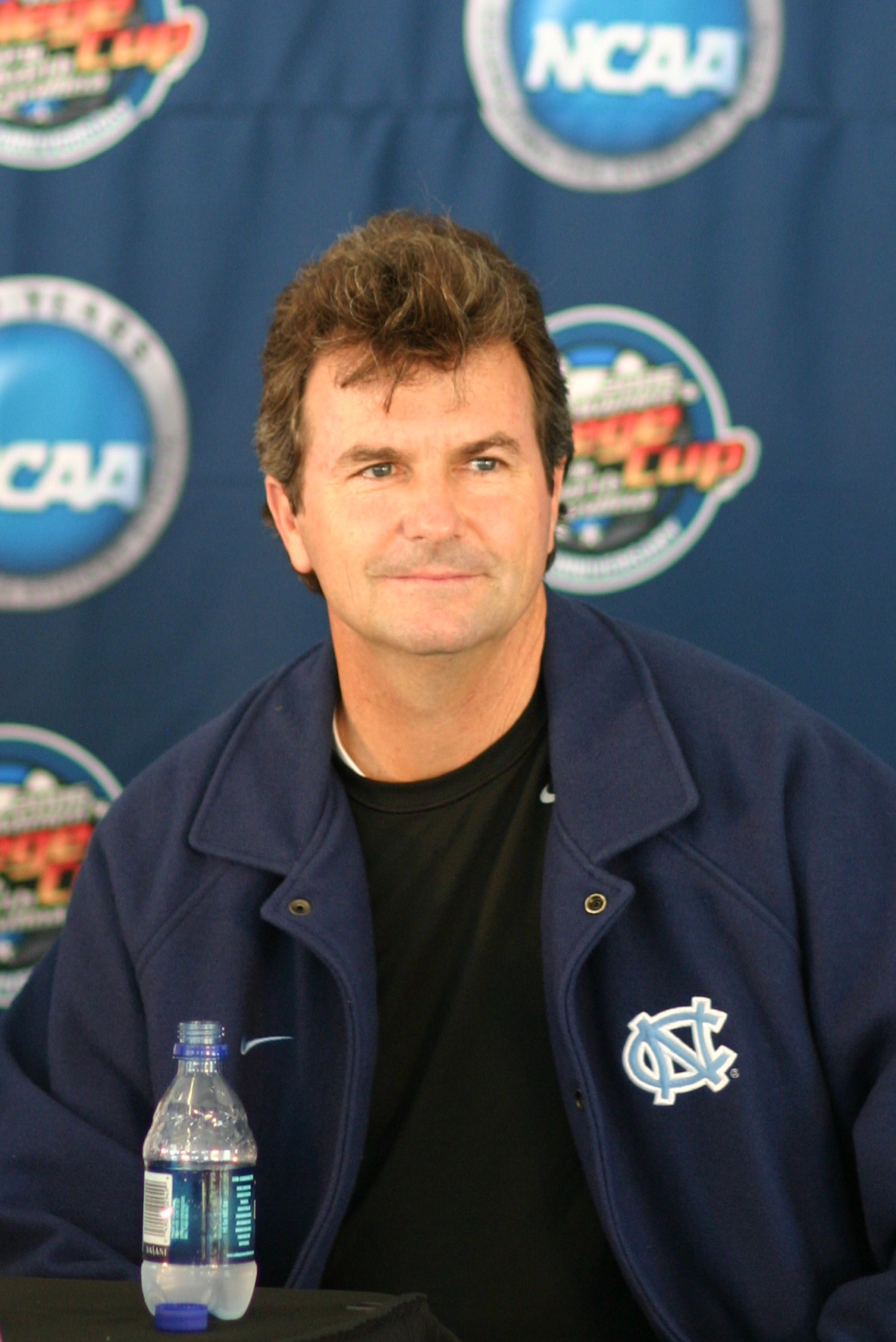 UNC's Anson Dorance talks to the media the day before the 2006 Women's College Cup kicks off at SAS Soccer Park in Cary, NC